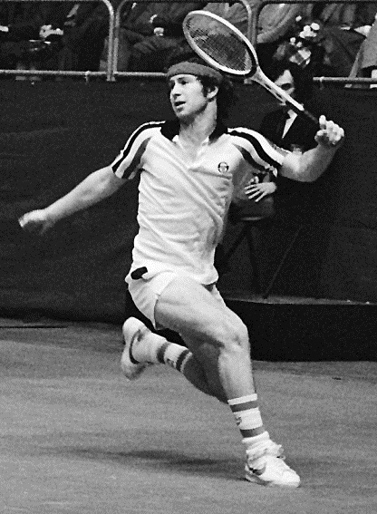 American tennis player John McEnroe at the 1979 ABN Tennis Tournament in Rotterdam